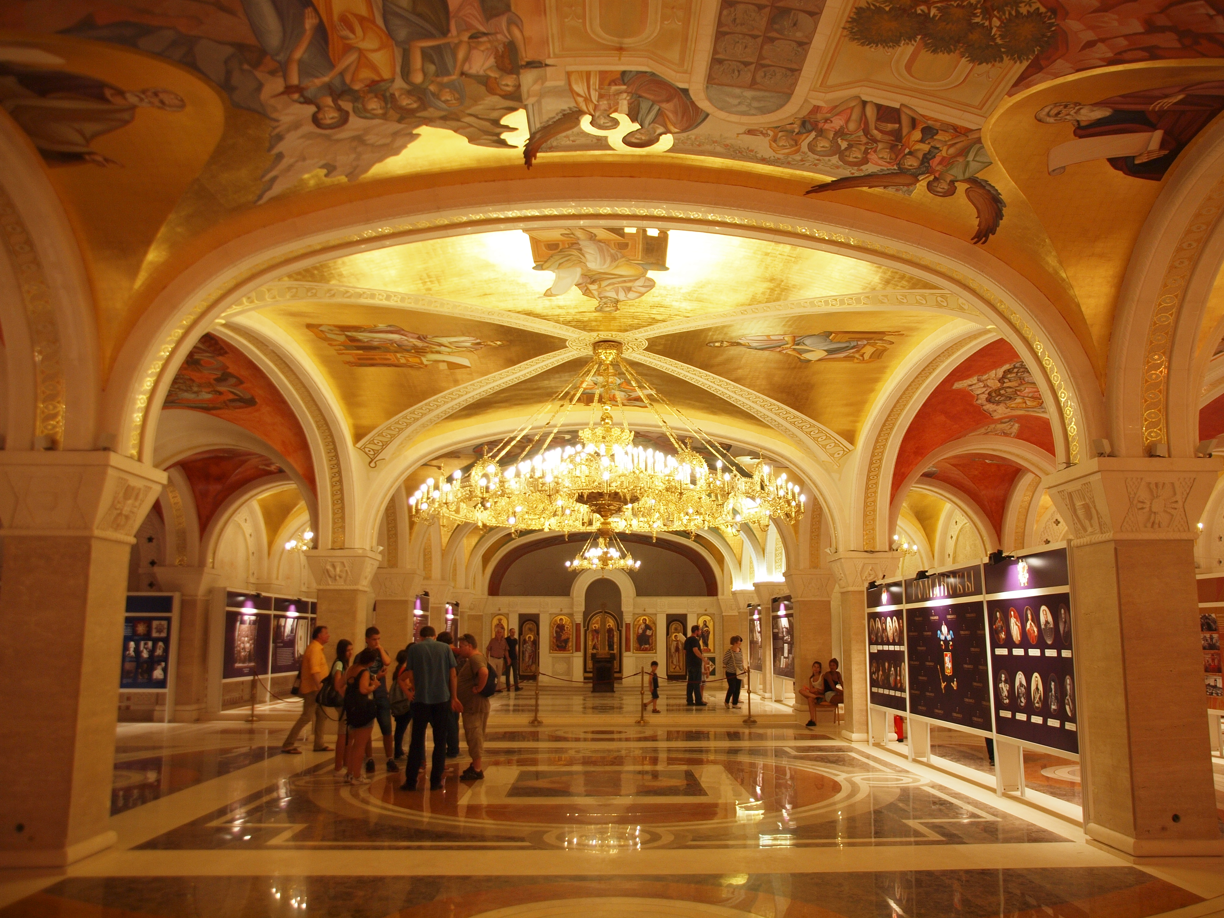 Kripta spomen Hram svetog Save 1